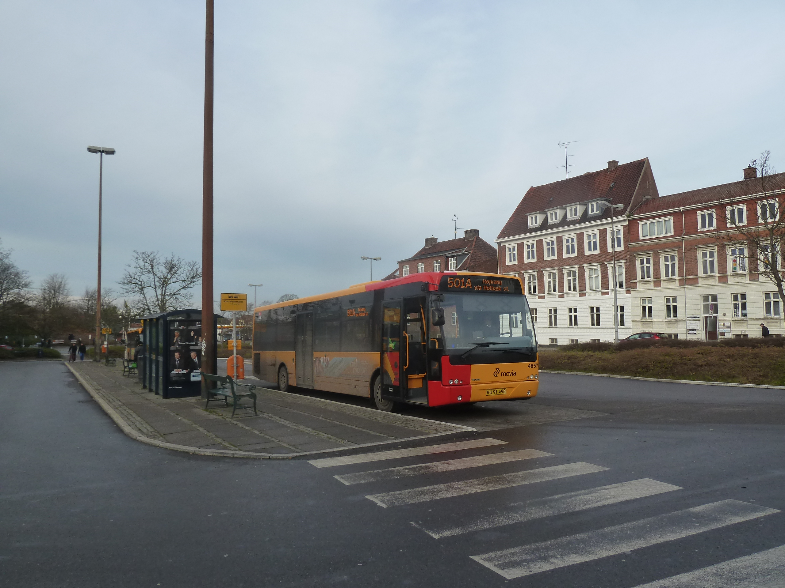 Movia bus line 501A at Holbæk Station in Denmark.